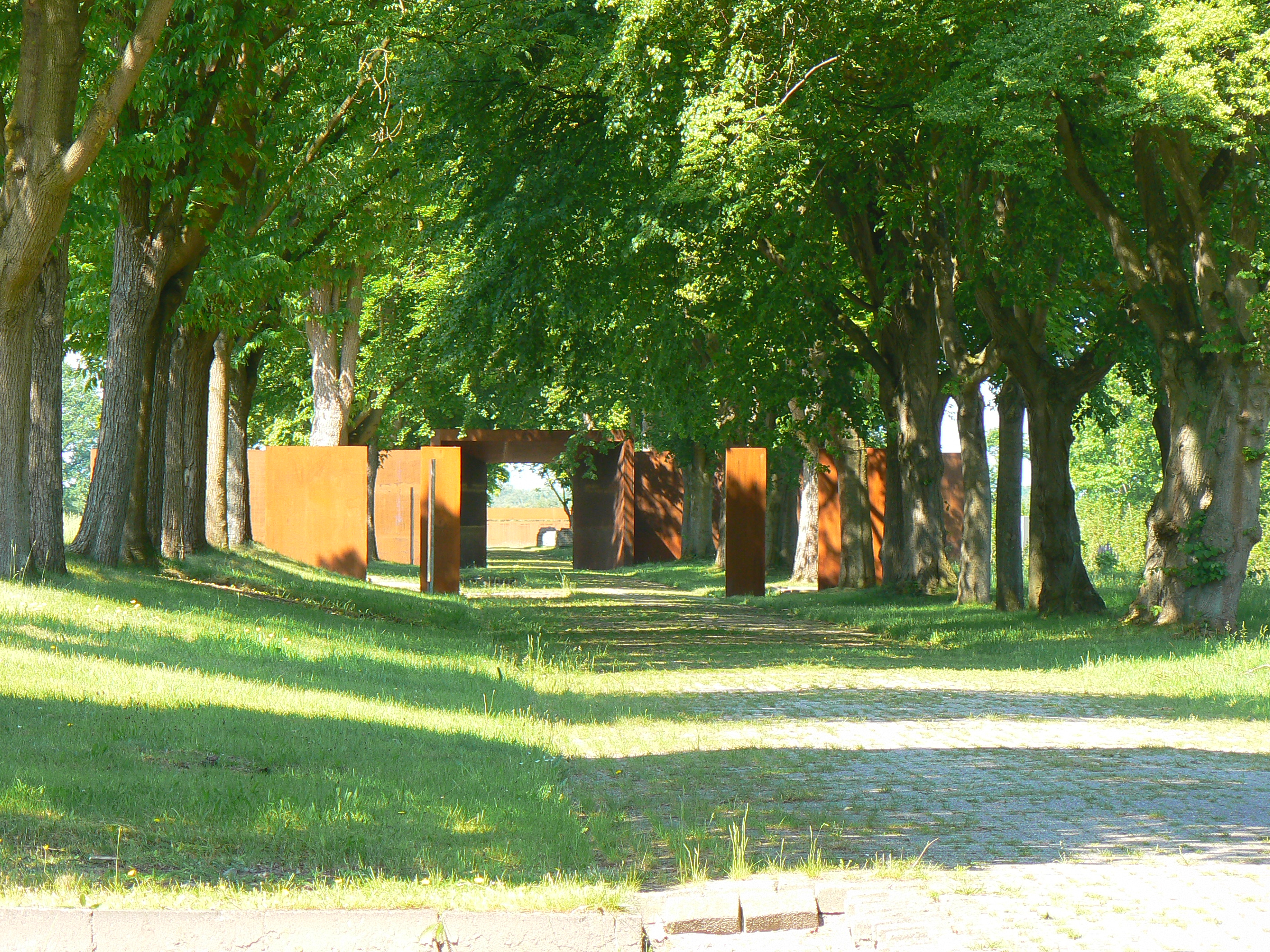 Former concentrationcamp Emslandlager Esterwegen 2010 Lower Saxony/Germany